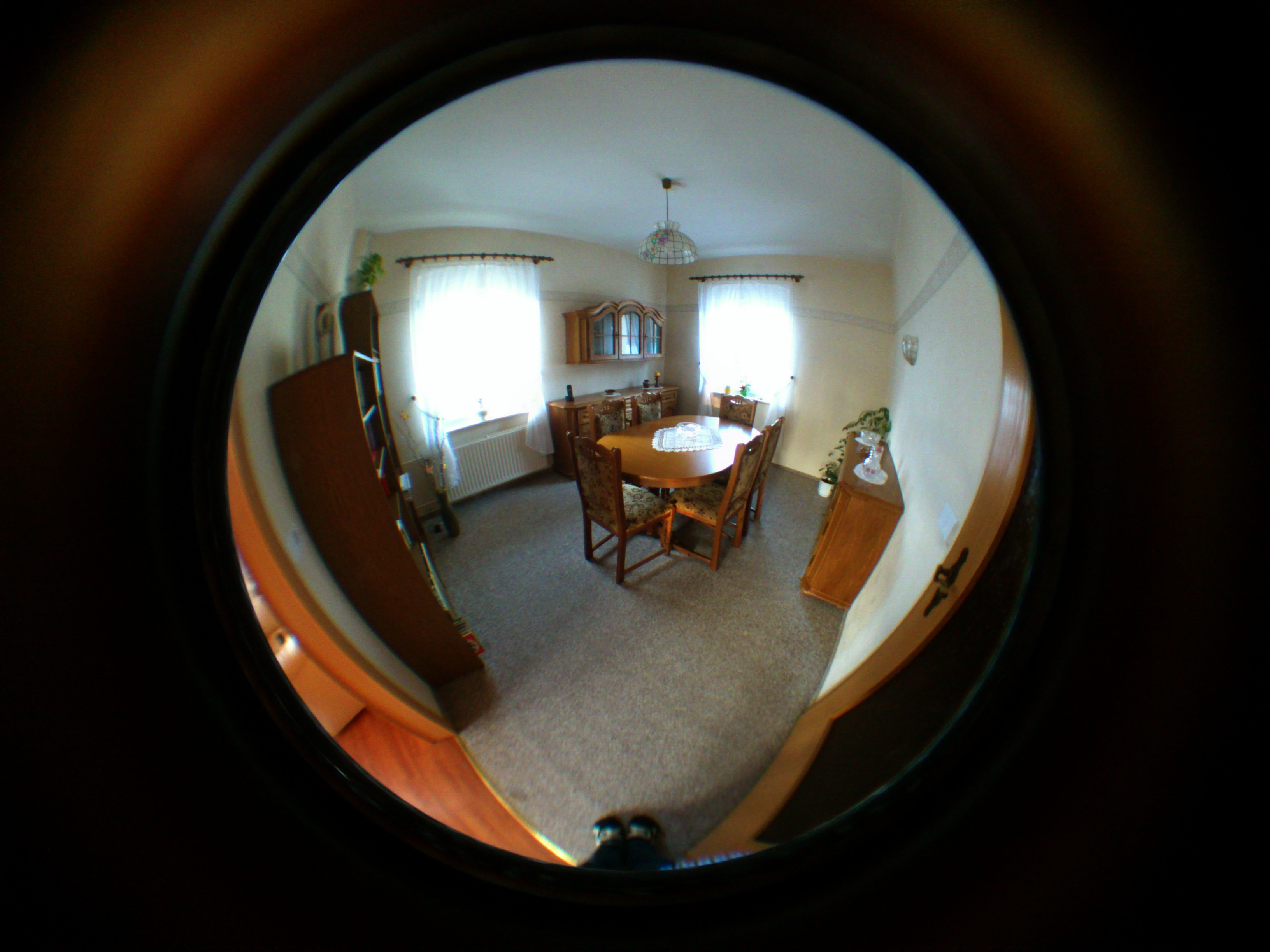 Digital photo, fisheye converter 0.25x (type: equisolid angle). Complete room (4 walls, ceiling and floor) from a corner. A series of experiments showed the best quality at a somewhat greater distance between converter and smartphone. That's why I have not used the self-adhesive ring, but a socket of 4 mm thickness plus a neodymium-ringmagnet of 3 mm thickness, in sum 7 mm. Center coordinates and mapping-function (see below) where used for remapping into other projections (see File usage on Commons). Fisheye converter 180° 0.2x (real 172° 0.25x), XPERIA neo (MT15i) center 1623.5; 1196.5 in pixel (left-right; top-down), focal length f = 759 pixel r = f ( 1 − Z ) sin ⁡ θ cos ⁡ θ − Z {\displaystyle r=f\,{\frac {\left(1-Z\right)\sin \theta }{\cos \theta -Z } , Z = 1 cos ⁡ 230 ∘ 2 {\displaystyle Z={\frac {1}{\cos {\frac {230^{\circ {2 }